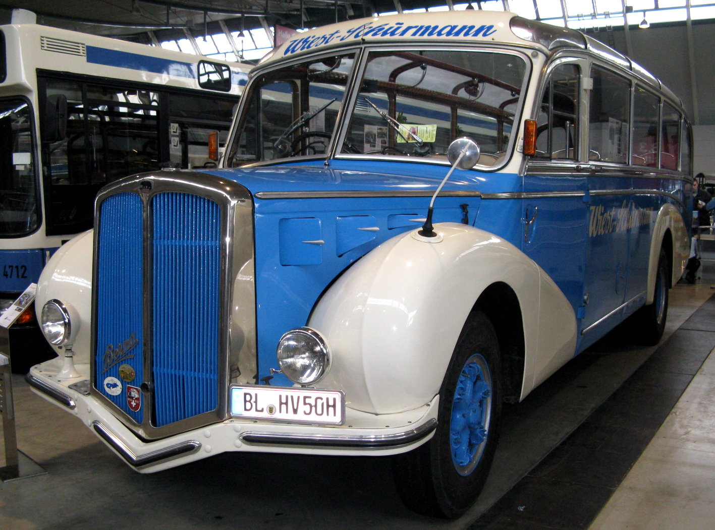 1950 Berna bus